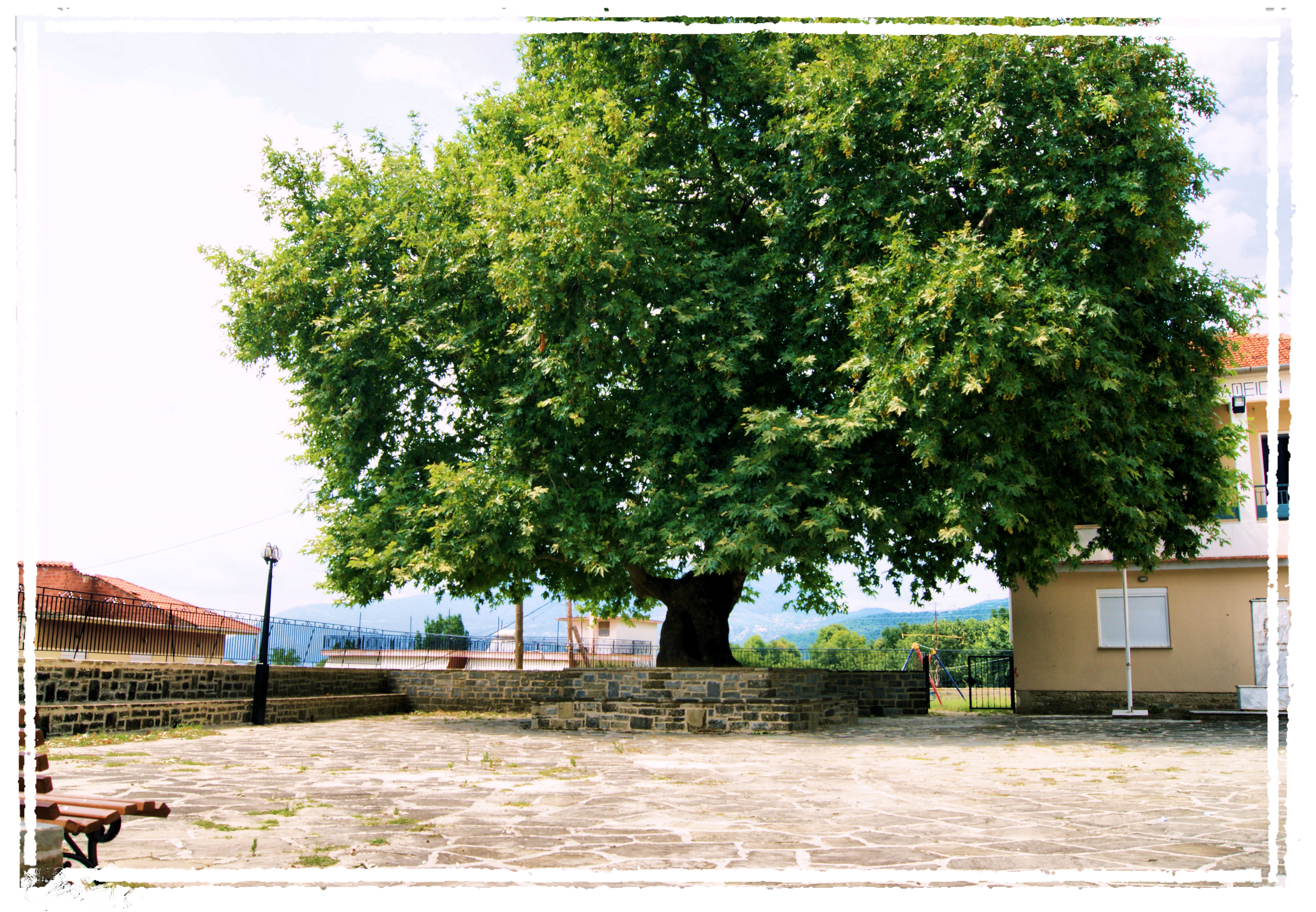 Central square of Drosohori- Ioannina - Greece